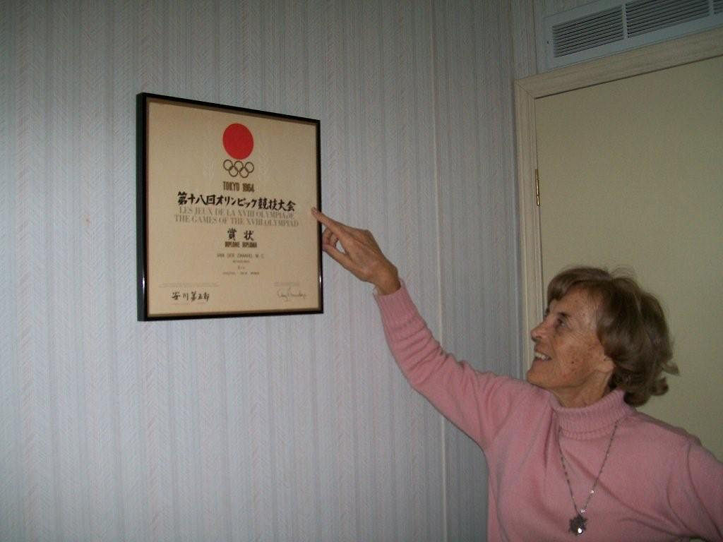 Tilly van der Zwaard at home in Edgewater, Florida (USA), standing next to her 1964 Olympic certificate.